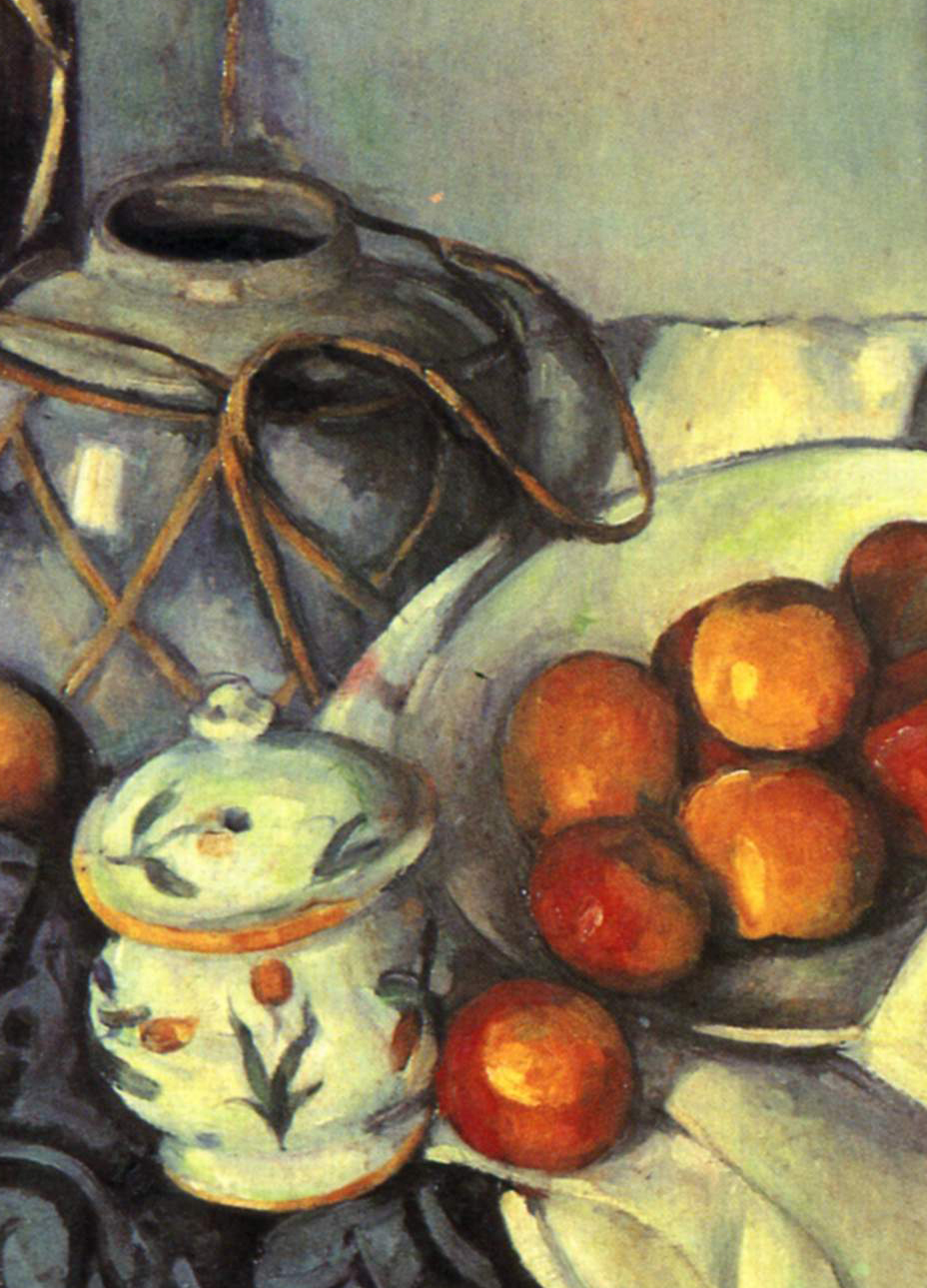 Still Life with Apples, cropped.